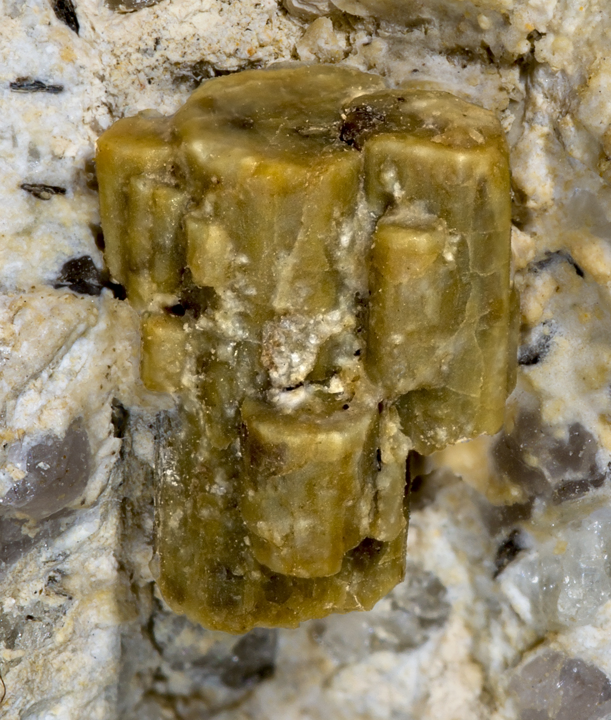 Cordierite in rhyolite Locality: Roccatederighi, Roccastrada, Grosseto Province, Tuscany, Italy. Size of view 1.5 cm